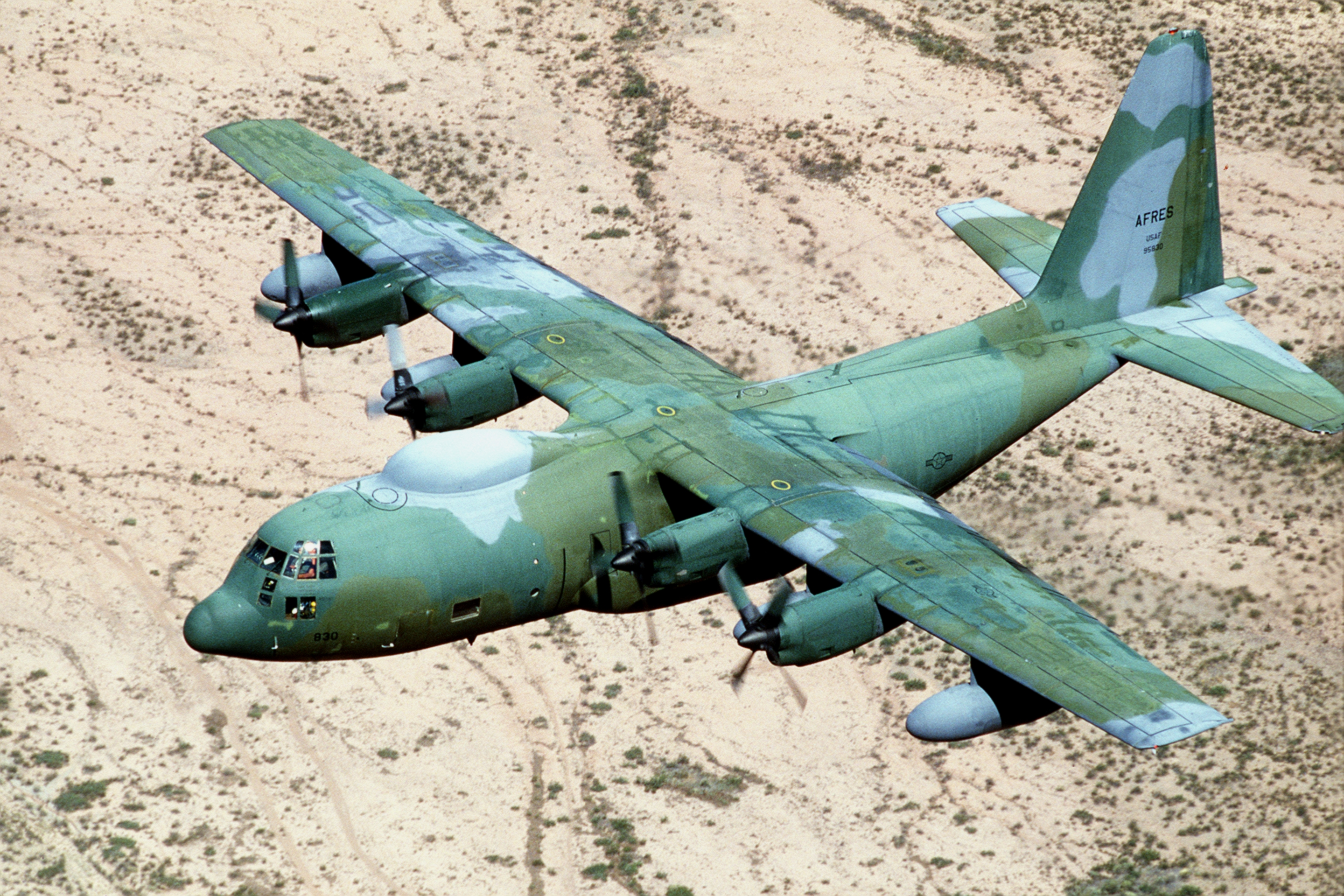 A U.S. Air Force Reserve Lockheed HC-130N-LM Hercules (s/n 69-5830) in flight during exercise "Patriot Coyote" on 26 June 1986.